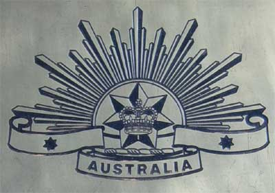 Australian Army 'Rising Sun' badge, Australian Army Memorial, on ANZAC Parade, Canberra. This is the version of the Rising Sun badge used between 1969 and 1991, with the Federation Star and Torse Wreath.[1] I took this picture. Peter Ellis 05:41, 1 May 2005 (UTC) I now realise that the representation of the badge is not the current representation, and that my photograph of it is fully releasable.- Peter Ellis - Talk 03:56, 2 January 2010 (UTC) ↑ History of the Rising Sun Badge, Australian Army| , accessed 2 January 2010